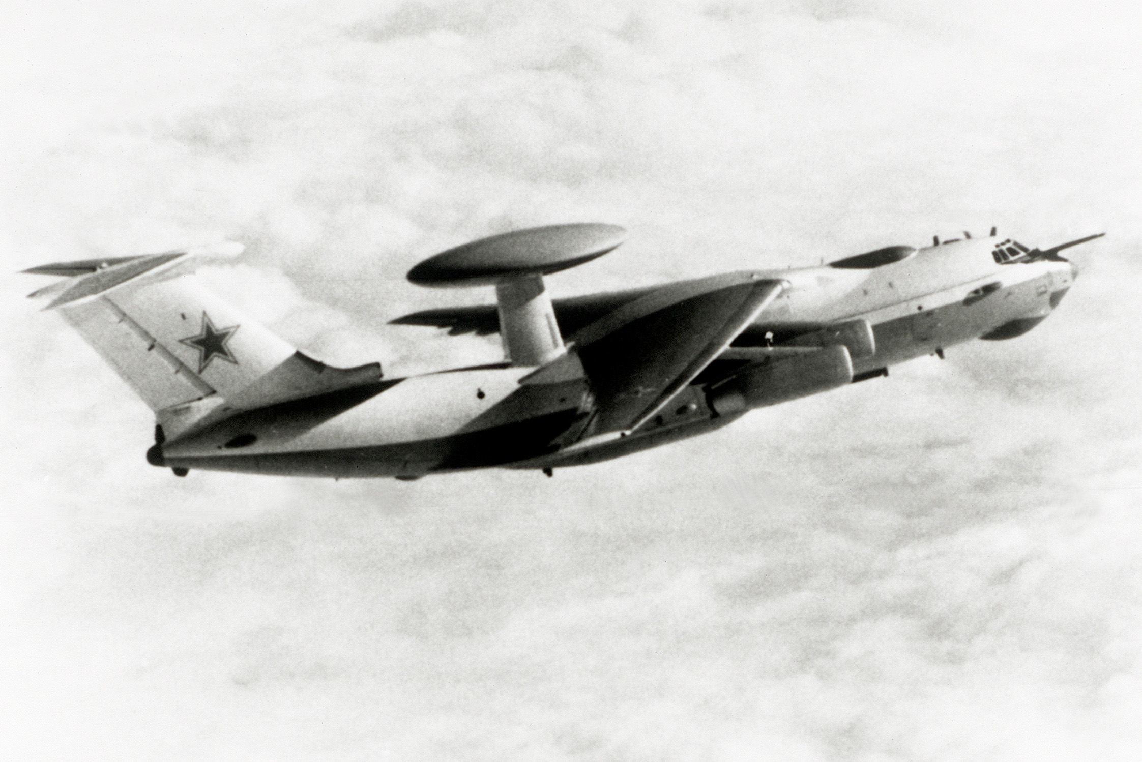 An air-to-air right side view of a Soviet MAINSTAY airborne warning and control system (AWACS) aircraft.